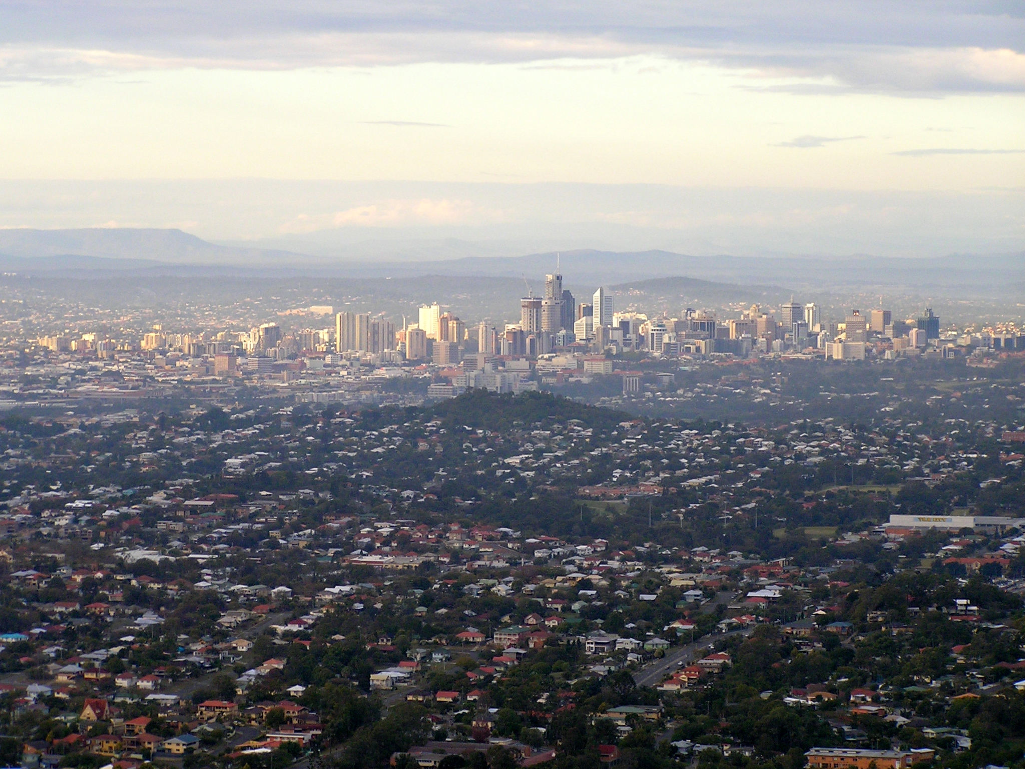 Brisbane. Photo taken from a hot air balloon.